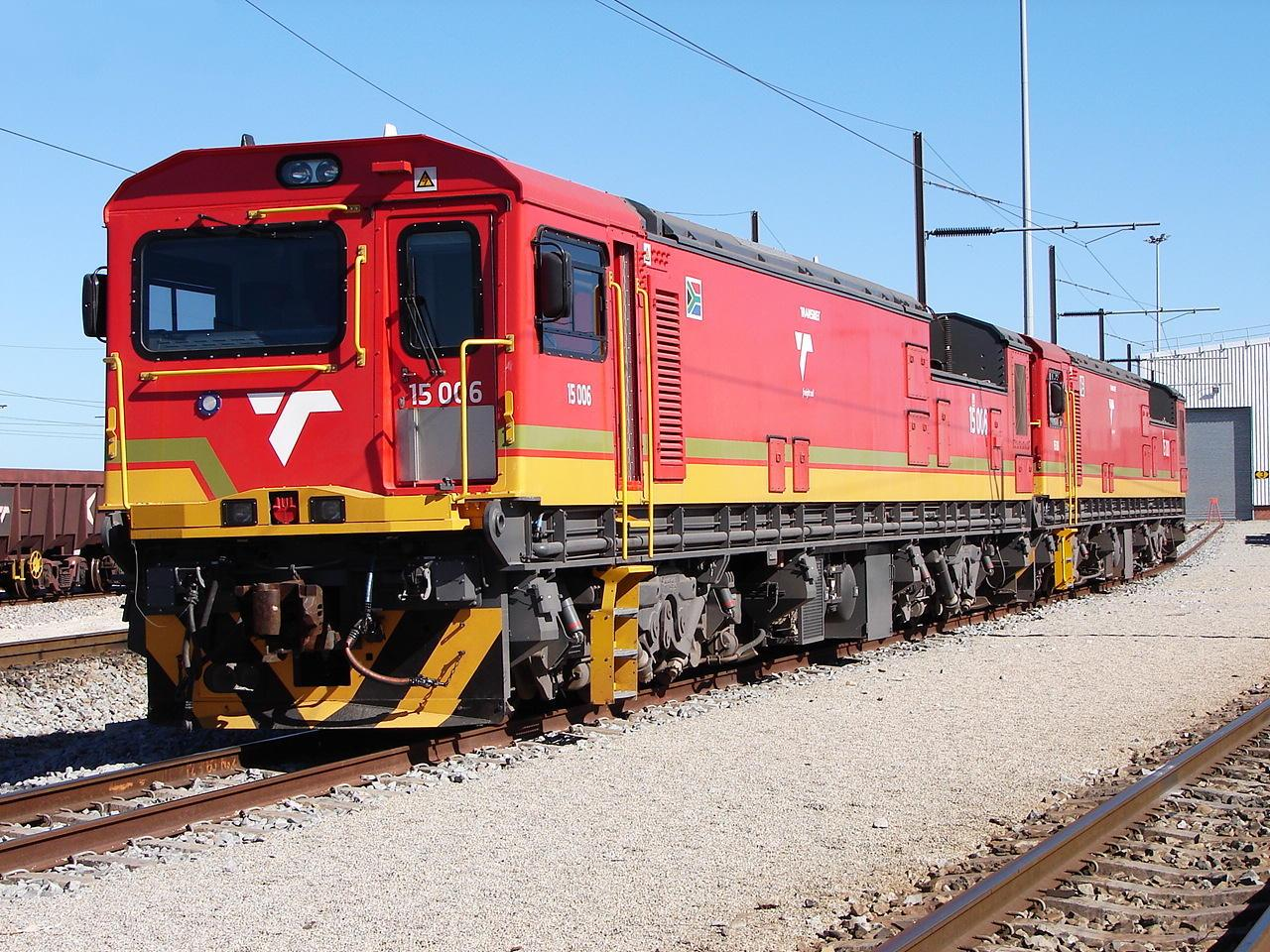 TFR Class 15E 15-006Location: Salkor yard, Saldanha, Western Cape